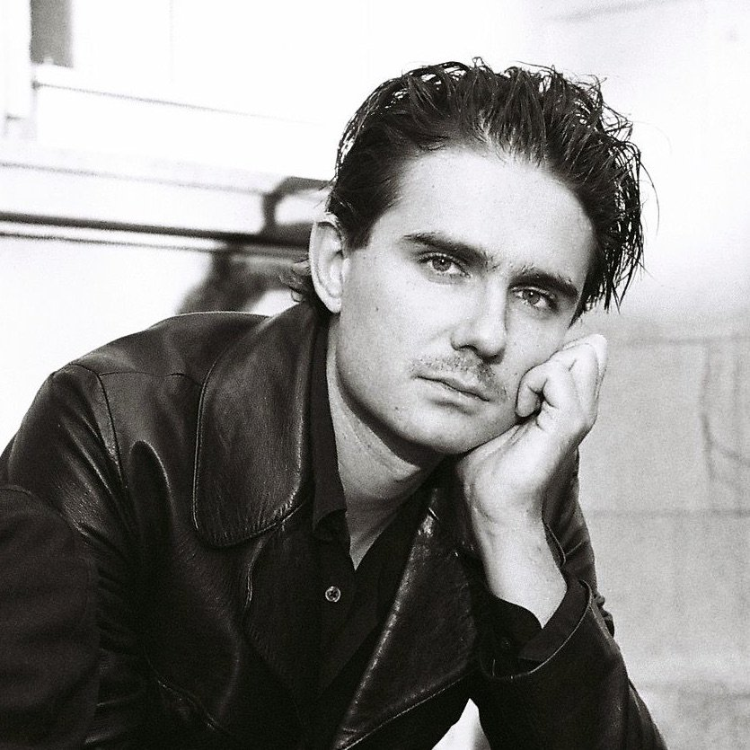 John Moods